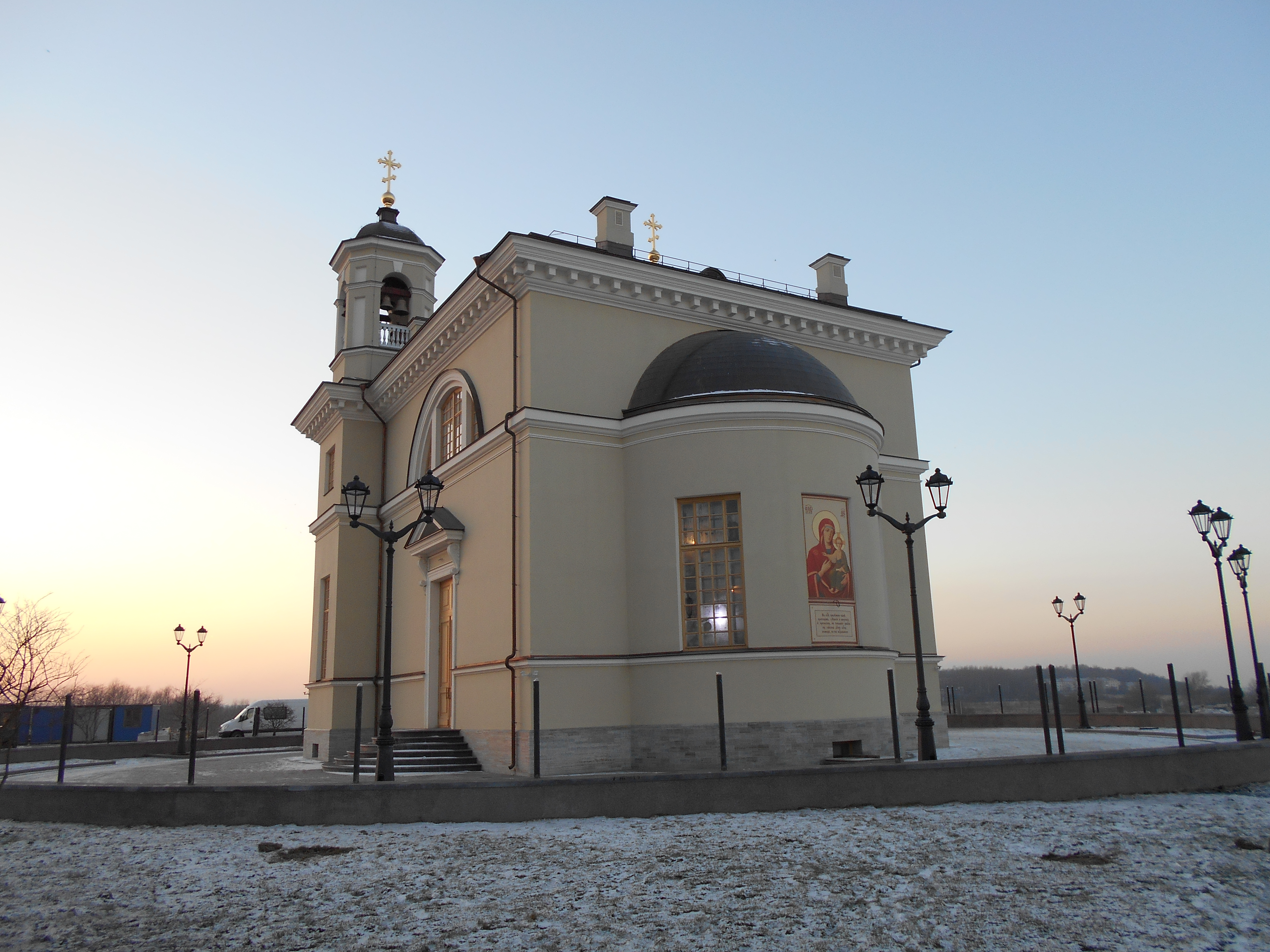 Church of Our Lady of Smolensk in Pulkovo